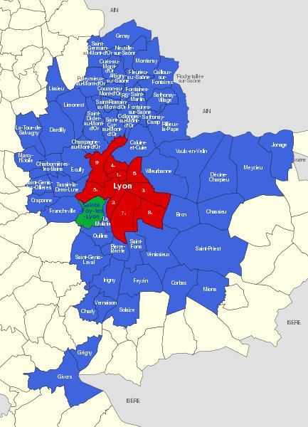 Communes du Grand Lyon, en vert Sainte-Foy-lès-Lyon